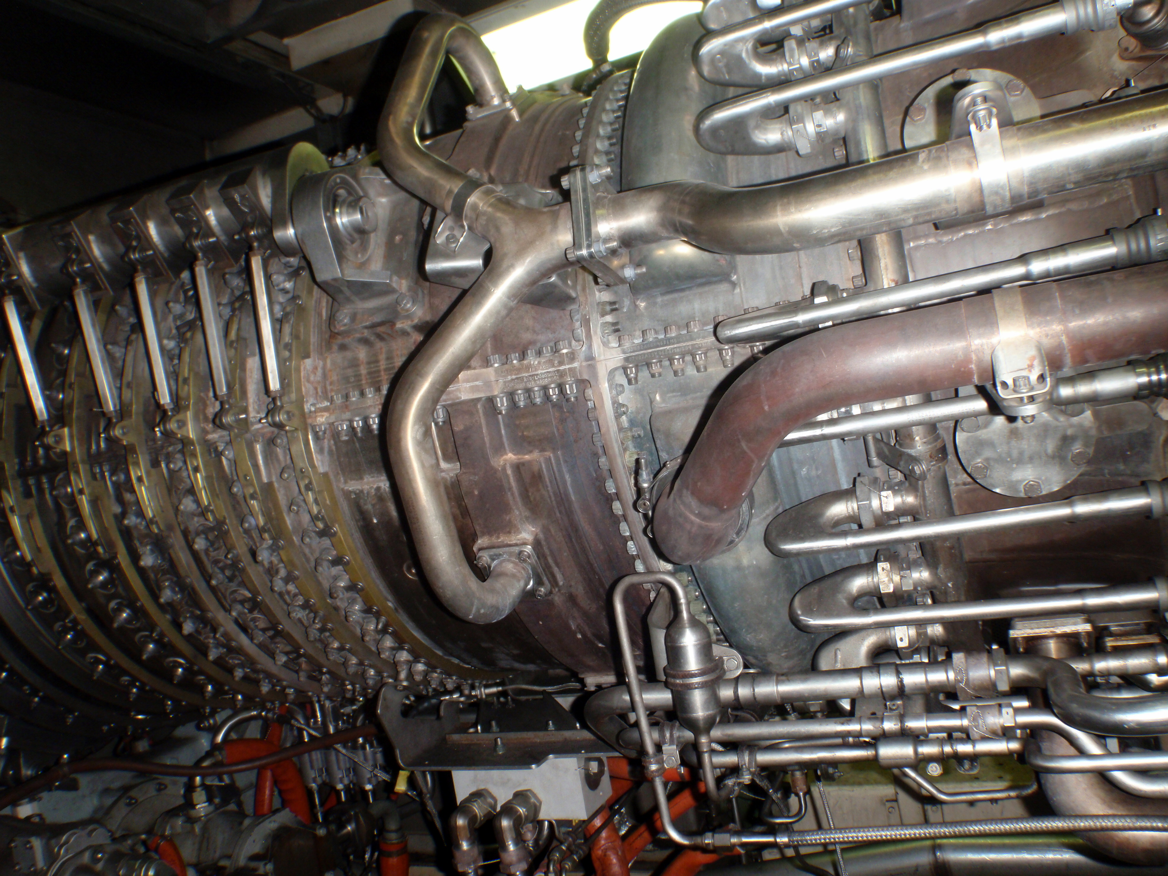 Turbine engine aboard the NGV Liamone ship